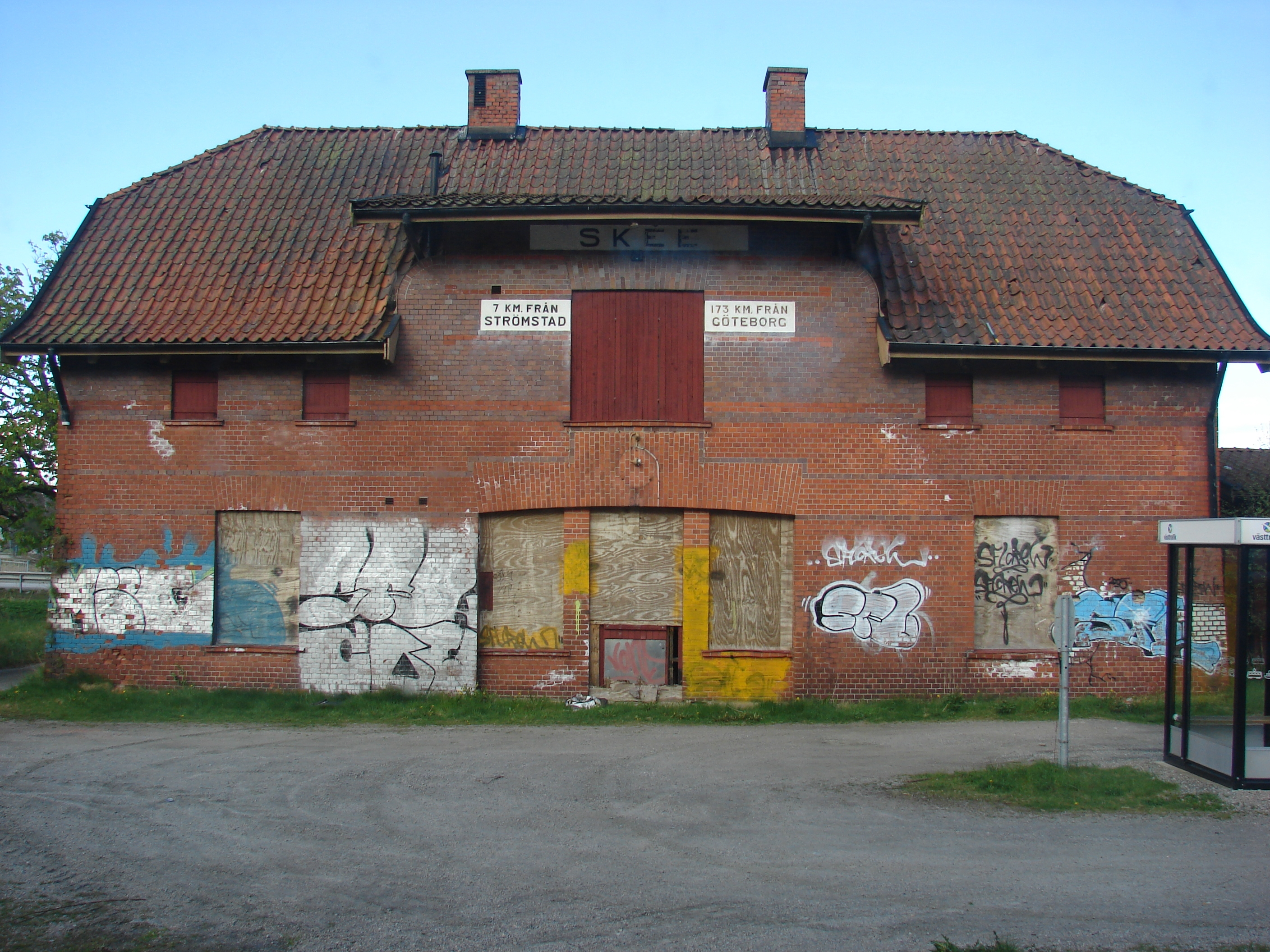 Skee railway station, Strömstad municipality, Bohuslän, Västra Götaland county, Sweden.